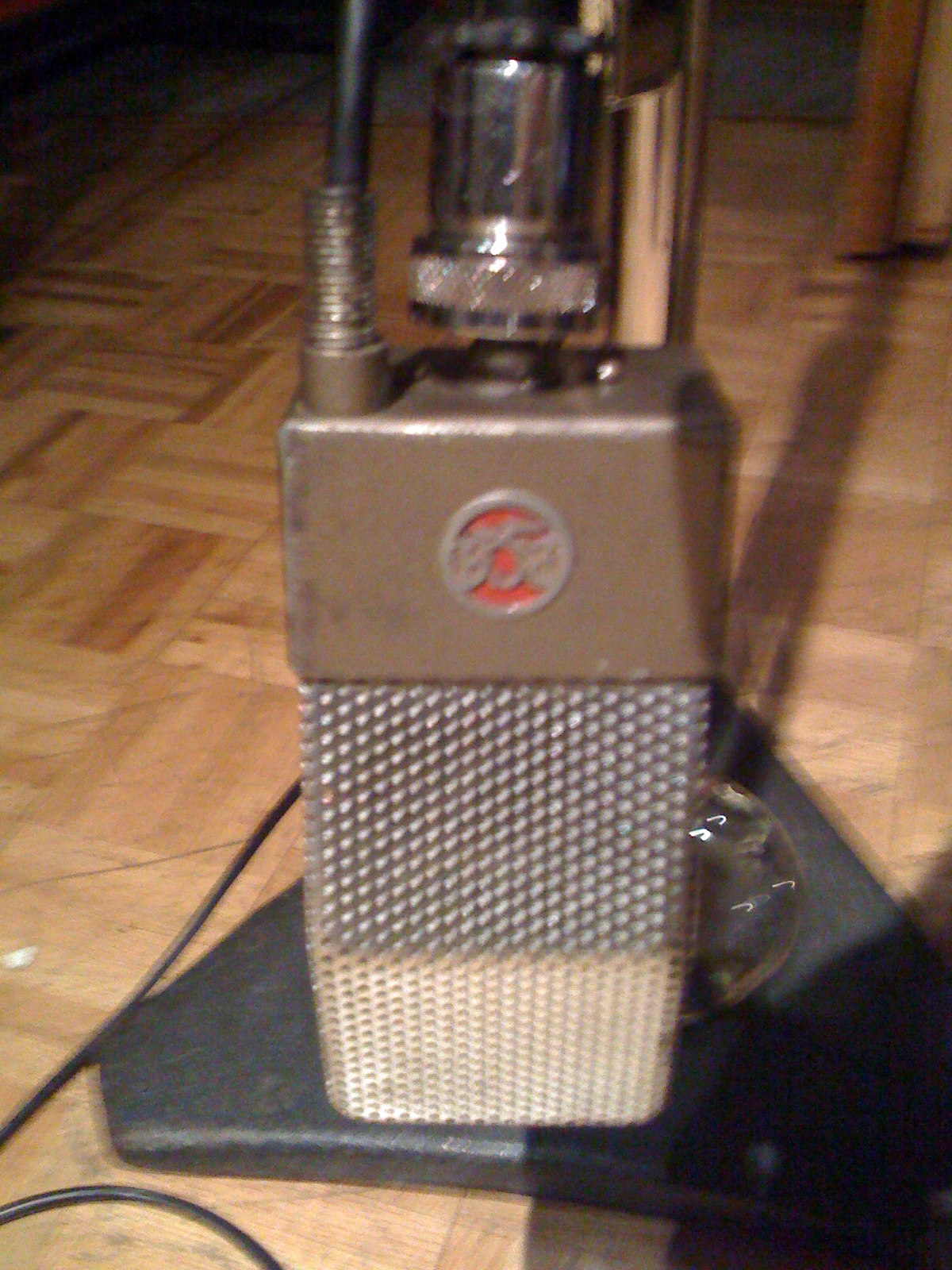 RCA 74 Jr. Velocity Ribbon Microphone